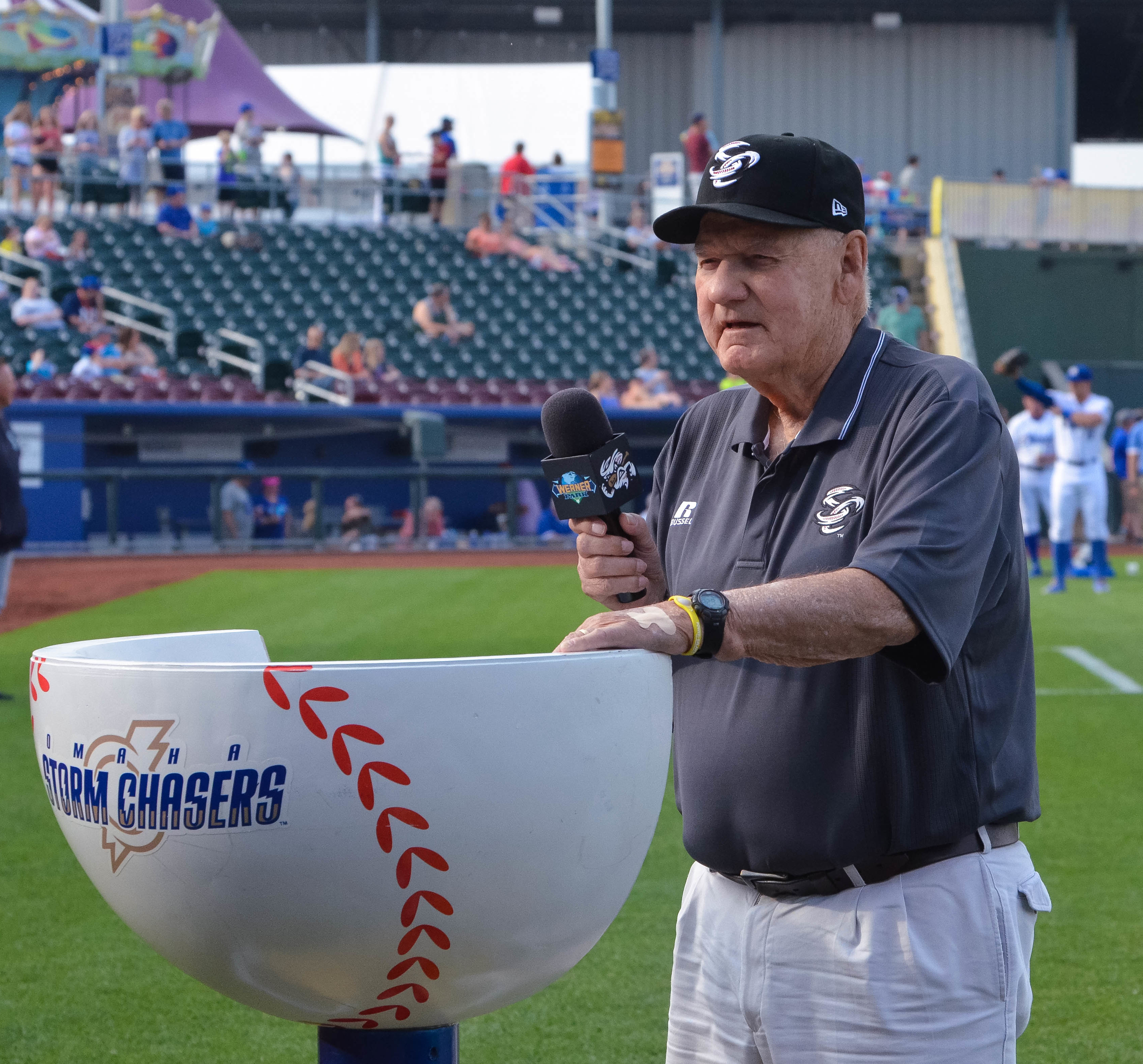 Bill Fischer makes a speech at Werner Park in Omaha on "Bill Fischer Day" in 2015.